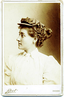 Annie Londonderry